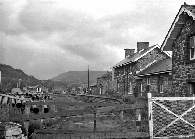 Builth Wells Station (remains). View eastward, towards Three Cocks Junction and Brecon; ex-Cambrian, Mid-Wales line (Moat Lane Junction - Three Cocks Junction - Brecon), closed completely 31/12/62. This stretch is now a road - Builth Inner Ring Road? The prominent hill is Garth (922 ft.)